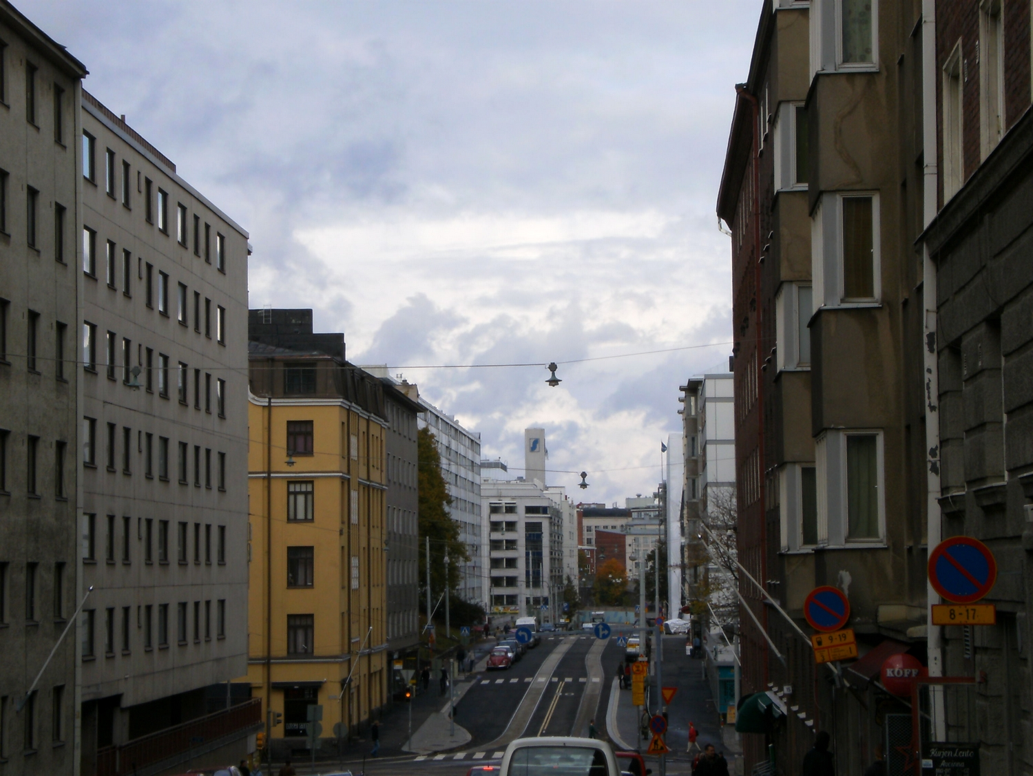 Fleminginkatu, Helsinki, Finland